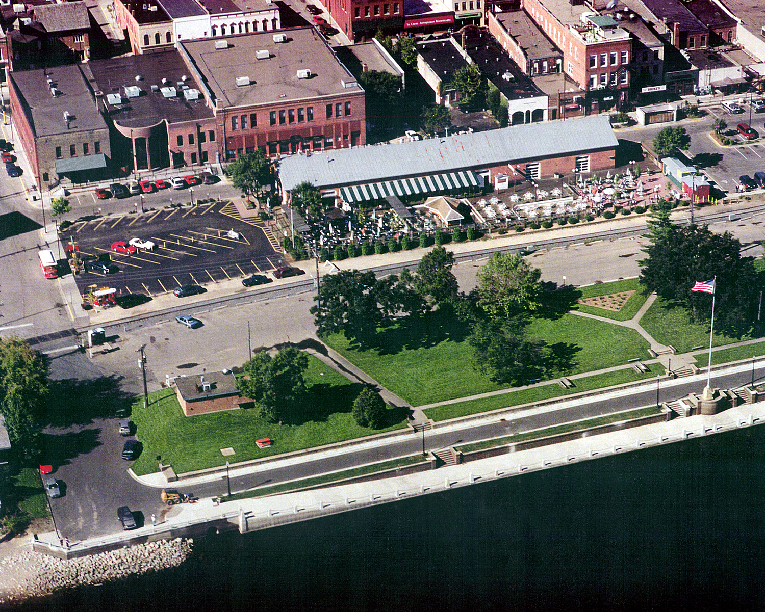 Aerial view of part of the waterfront section of Stillwater, Minnesota, USA, on the St. Croix River. View is to the west. The U.S. Army Corps of Engineers has constructed a floodwall along the waterfront.